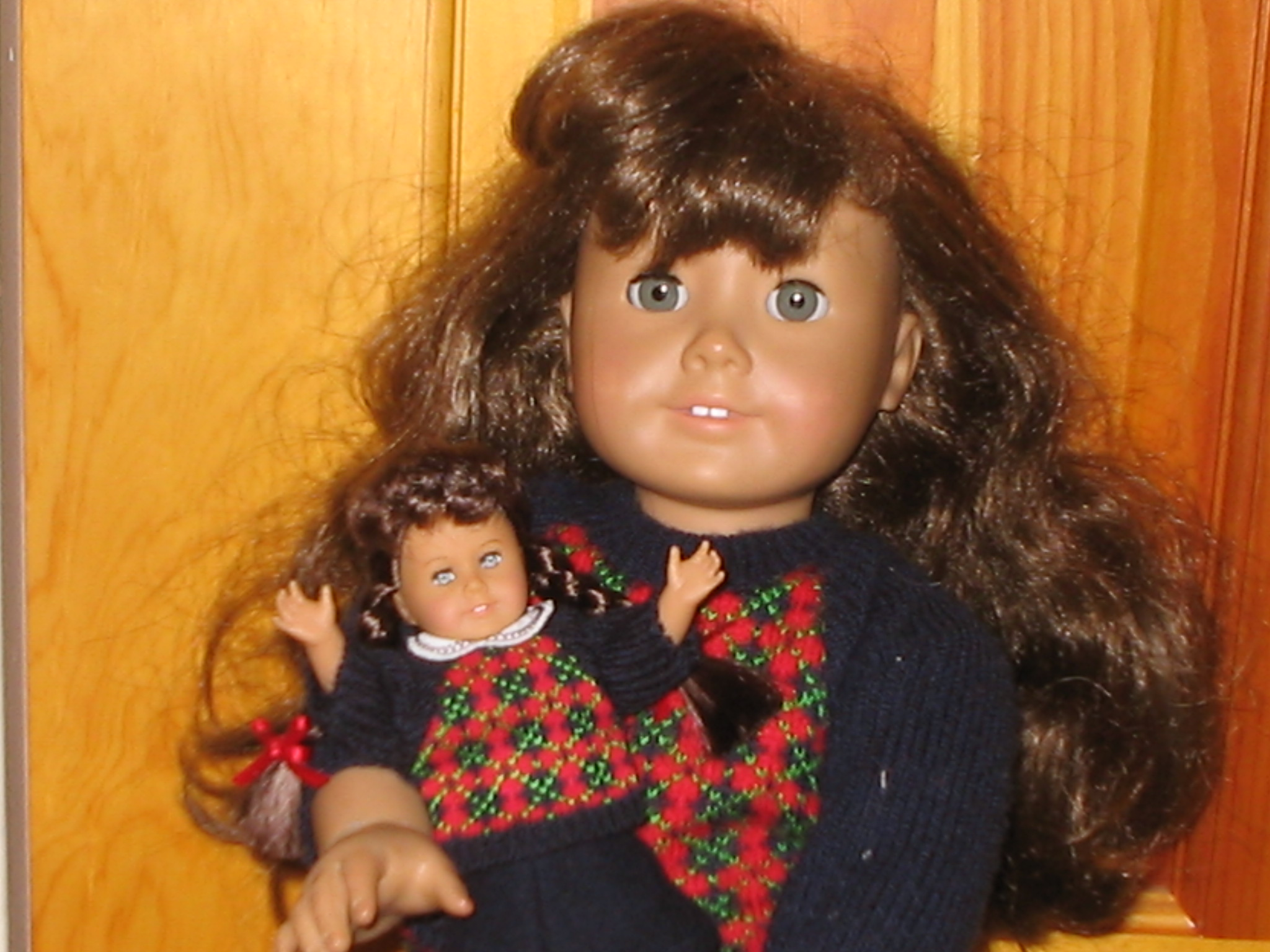 Molly, the American Girl Doll is shown here with a miniature version of herself.